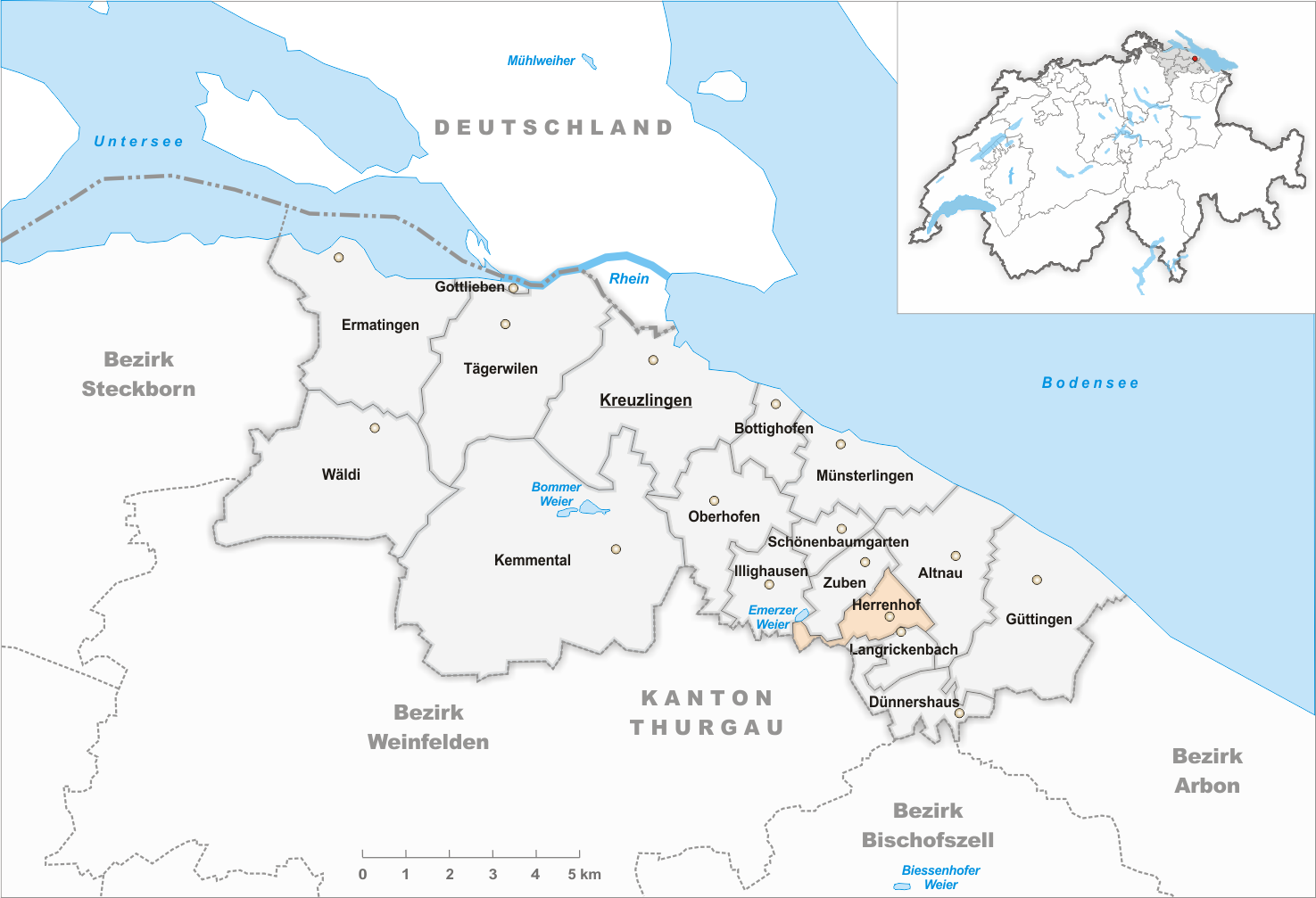 Municipality Herrenhof